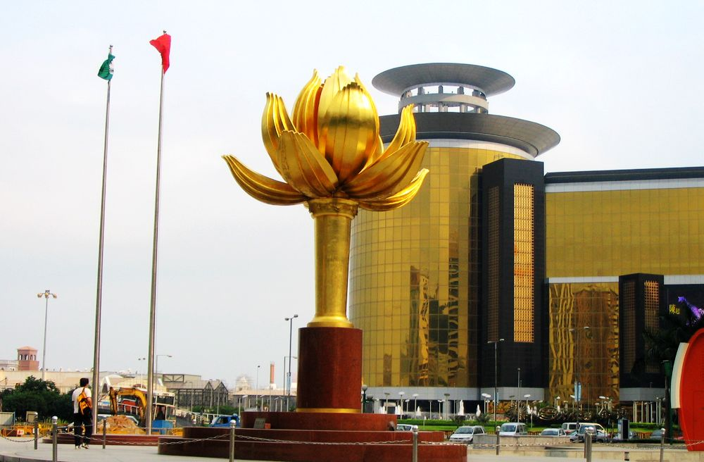 澳门金沙娱乐场(Sands Casino)